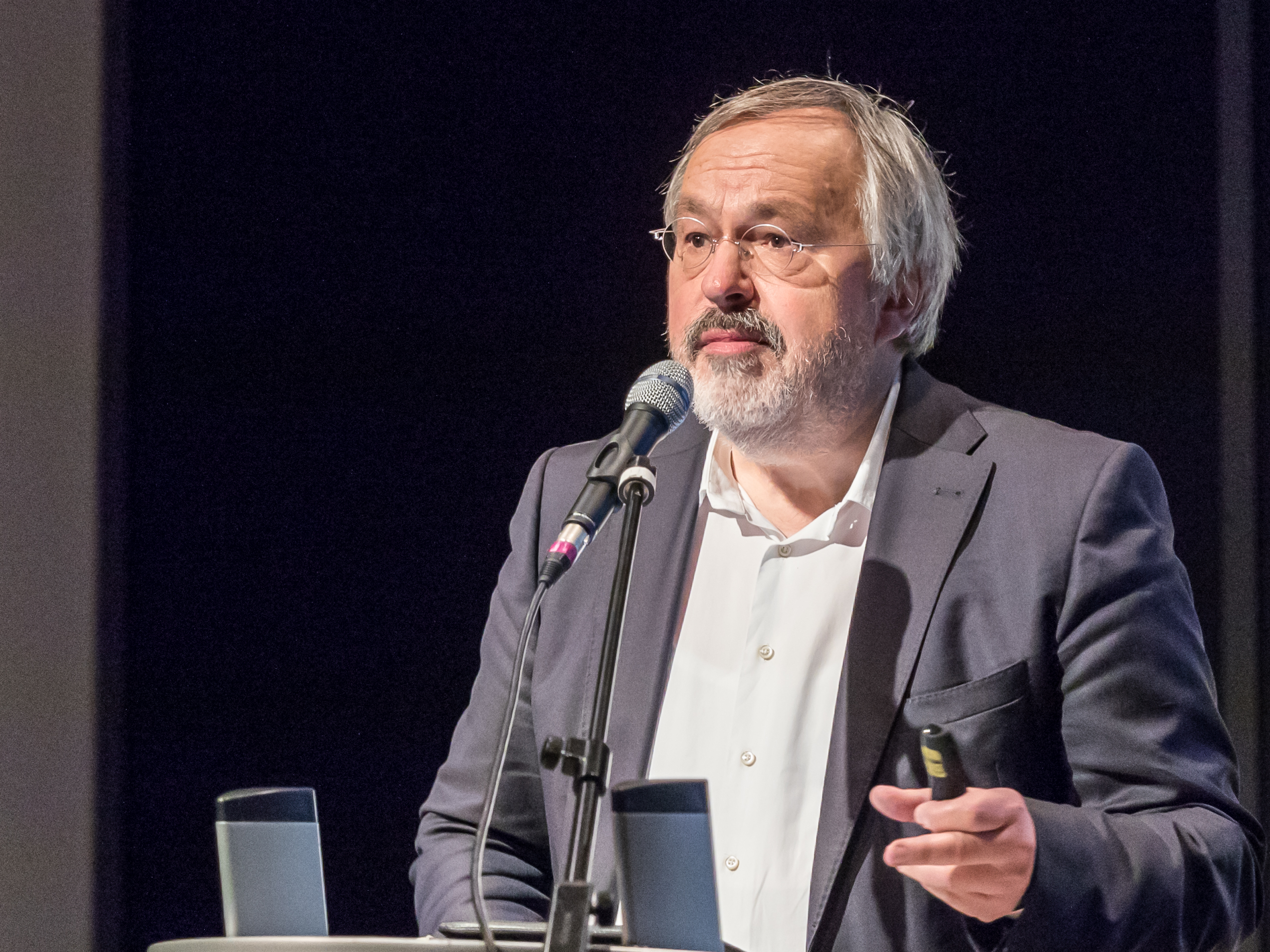 Kommunale Open Government Konferenz 2018. Veranstaltungsort: VHS-Forum im Kulturquartier Köln Foto: Franz-Reinhard Habbel, Publizist und ehemaliger Sprecher des Deutschen Städte- und Gemeindebundes